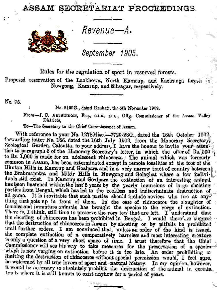 A letter showing the proposal for the establishment of Kaziranga reserve forest